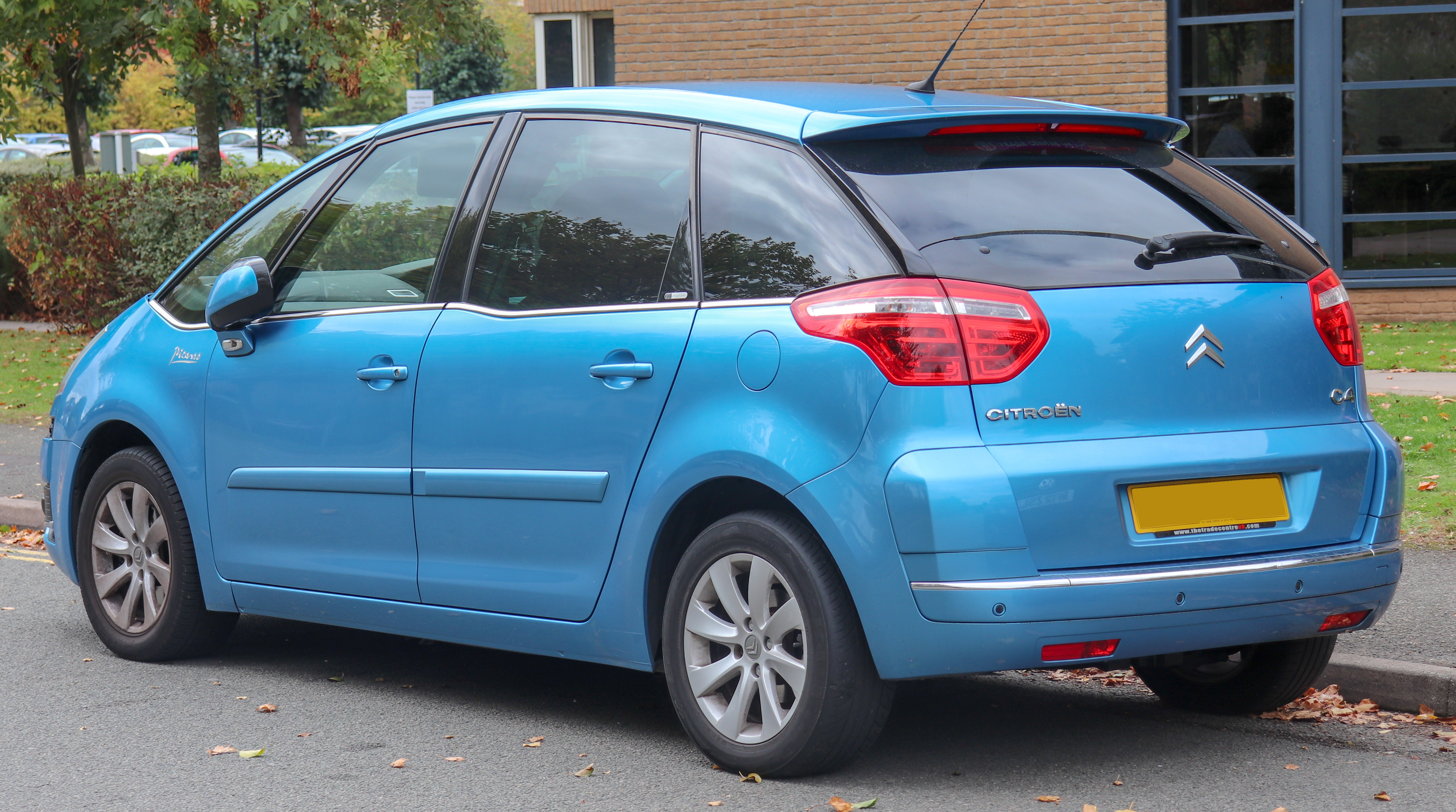 2009 Citroen C4 Picasso 5 Exclusive HDi S-A 2.0 Rear Taken in Leamington Spa